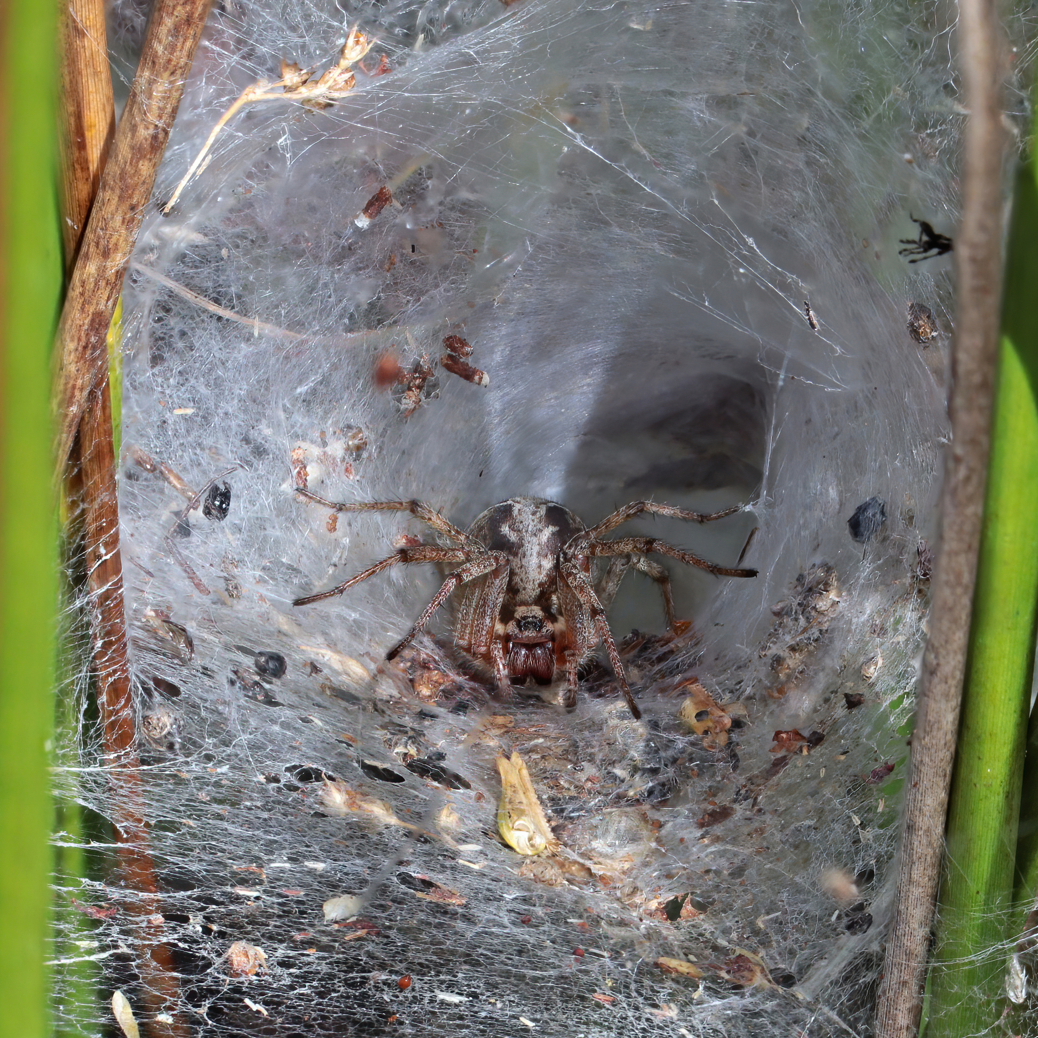 Labyrinth spider (Agelena labyrinthica) female in web funnel, Blankaart Nature Reserve, Diksmuide, Belgium. Focus stacked from 17 images. The spider has lost one leg which is traped in the web funnel. These spiders construct an underground nest for their young. If the adult dies before the spiderlings leave the nest, they will eat her body.